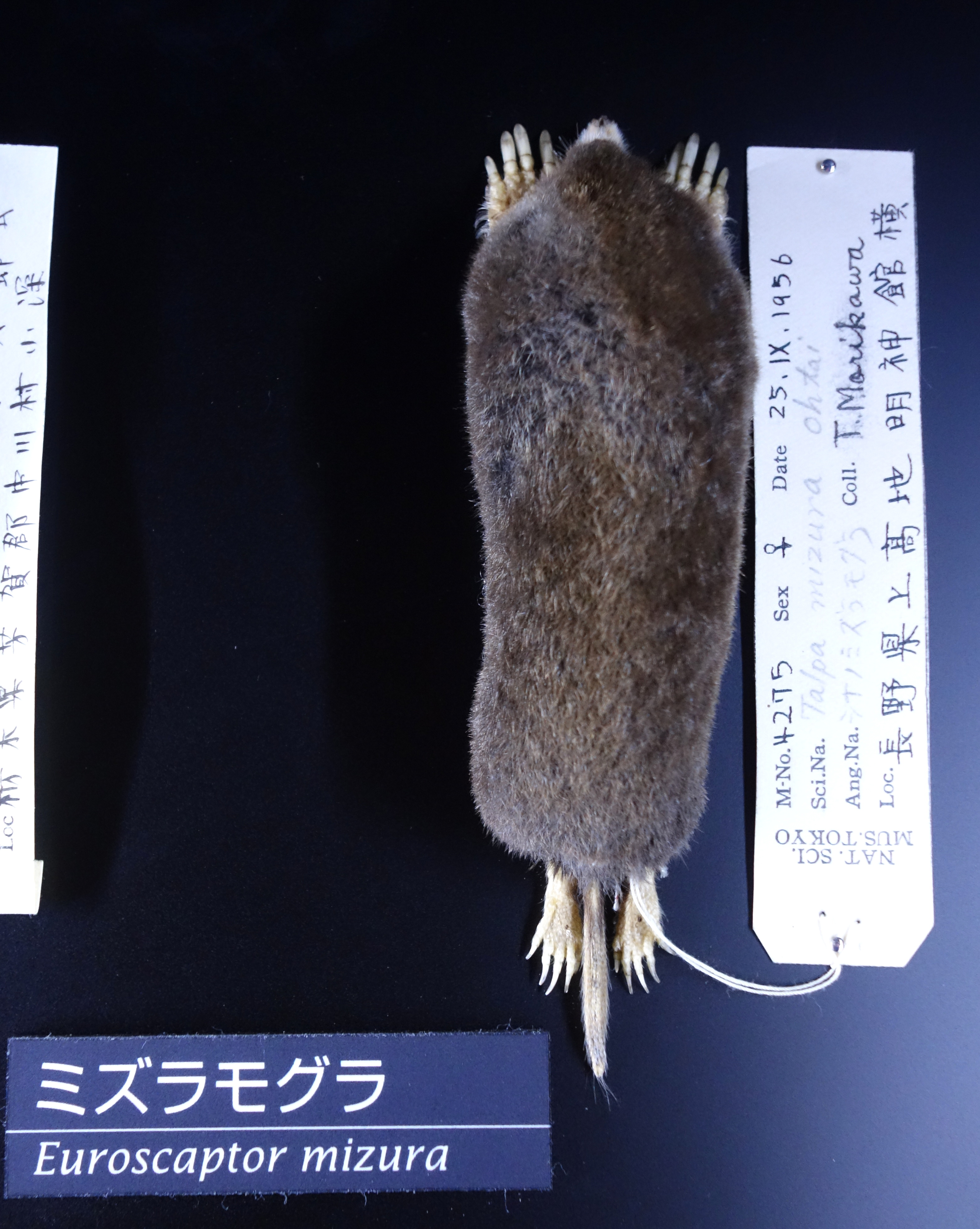 Exhibit in the National Museum of Nature and Science, Tokyo, Japan.